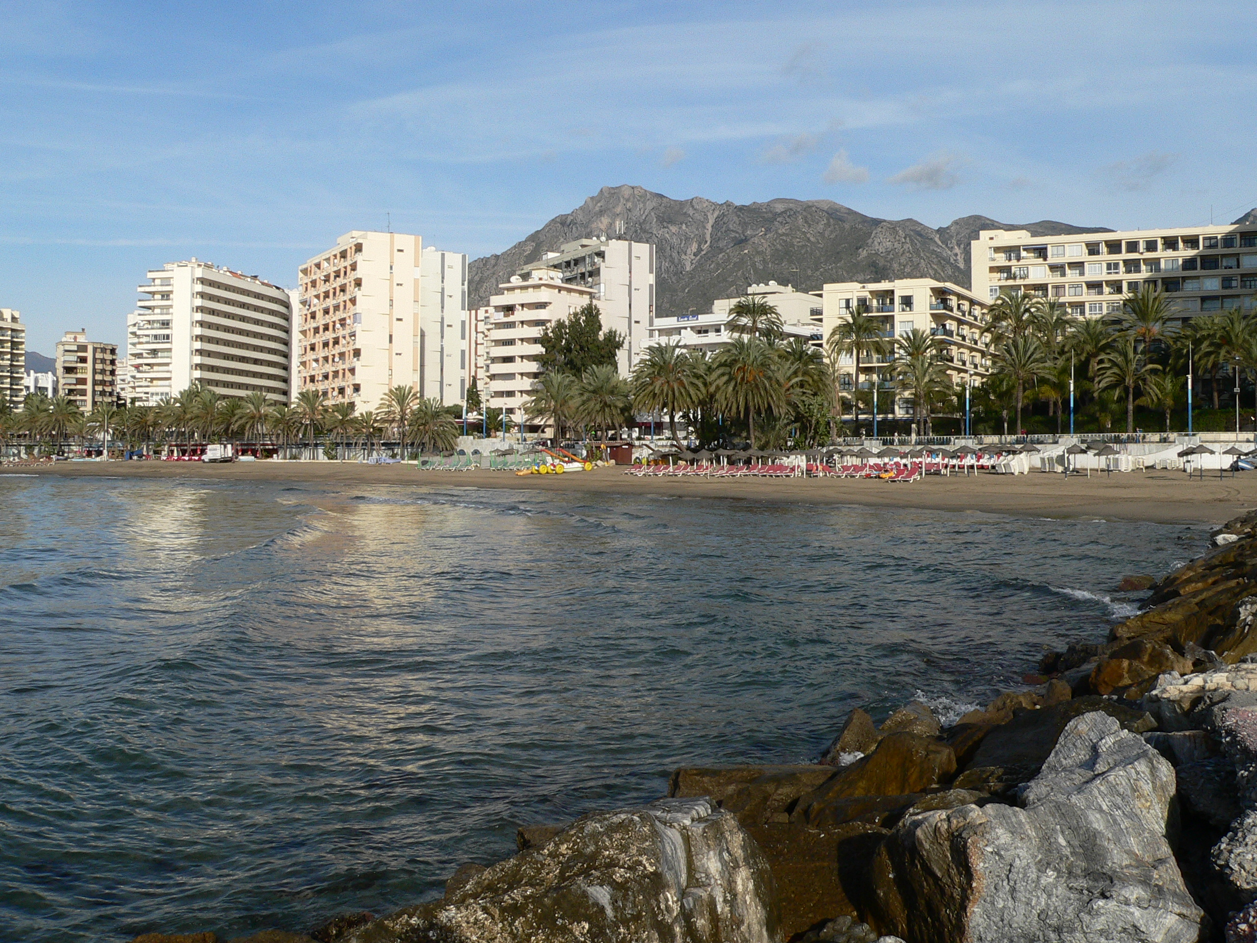 GFDL Marbella. Foto © tomada por Manuel González Olaechea y Franco Description: Marbella Subject: View of Marbella Country: Spain Photographer: © Manuel González Olaechea y Franco Shot date : December, 31st, 2005